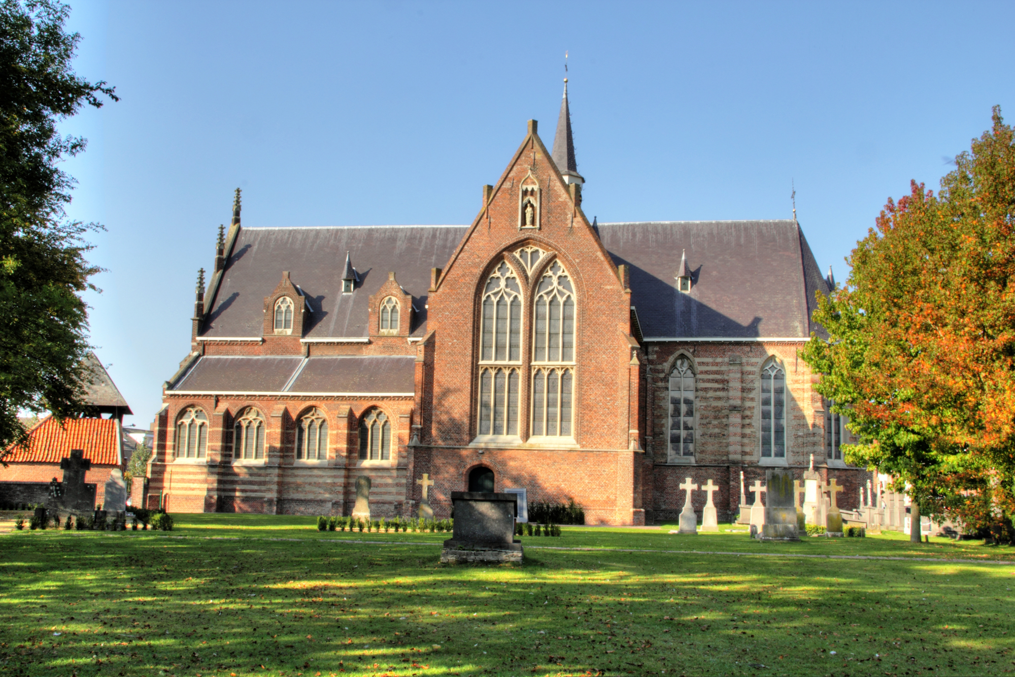 Saint Petrus Banden Church Bergeijk